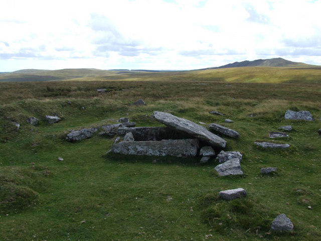 Buttern Hill Cist One of the treasures of Bodmin Moor!